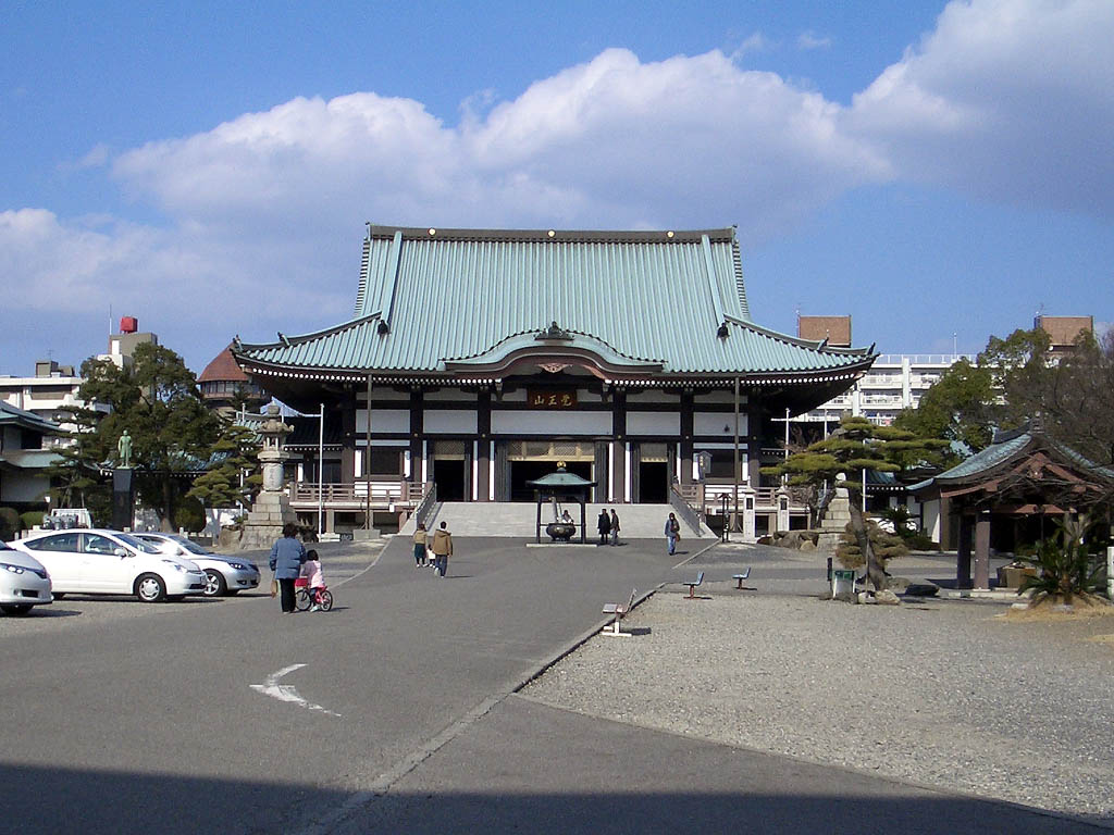 Nittaiji (Chikusa-ku, Nagoya)